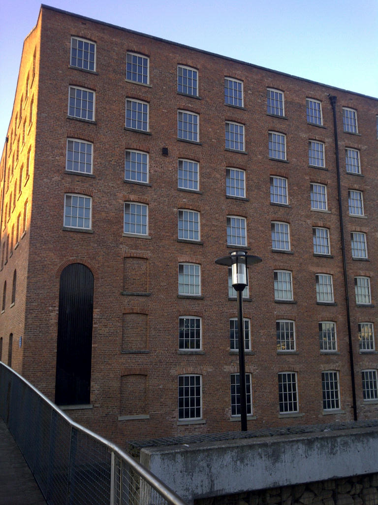 Brownfields Mill, Ancoats, Manchester, England is a Grade II* listed building.